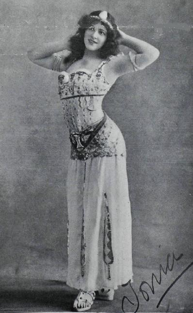 Clémentine de Vère (1888-1973), British-Belgian actress and illusionist performing mainly in Paris.